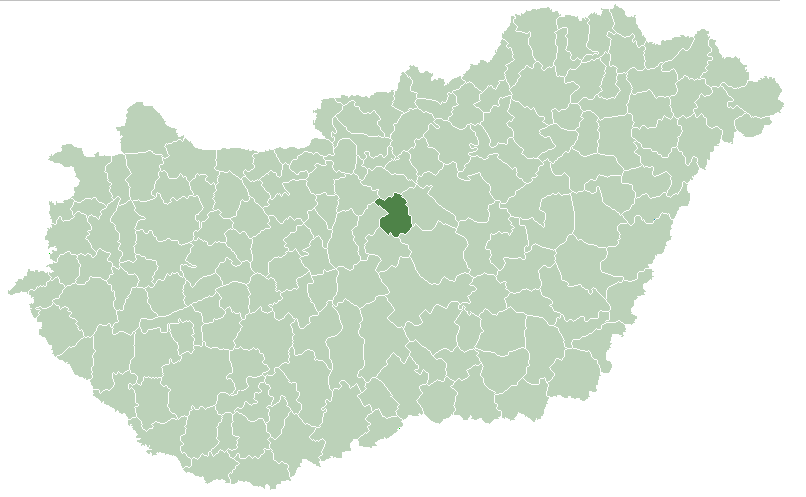 Location of subregion Monor, Hungary